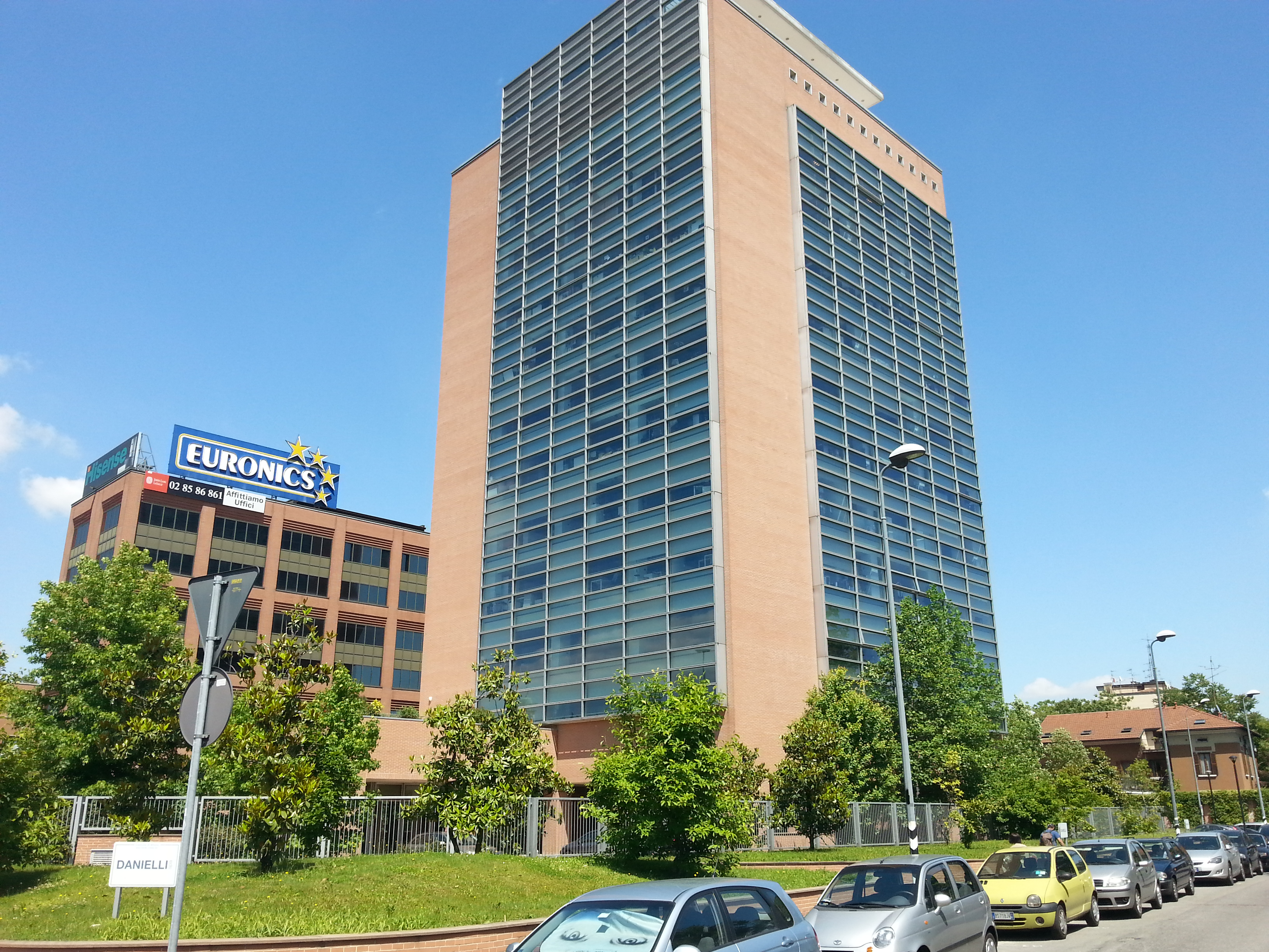 The skyscraper of Via Montefeltro 4 with the flowerbed of Via Barnaba Oriani managed by Danielli